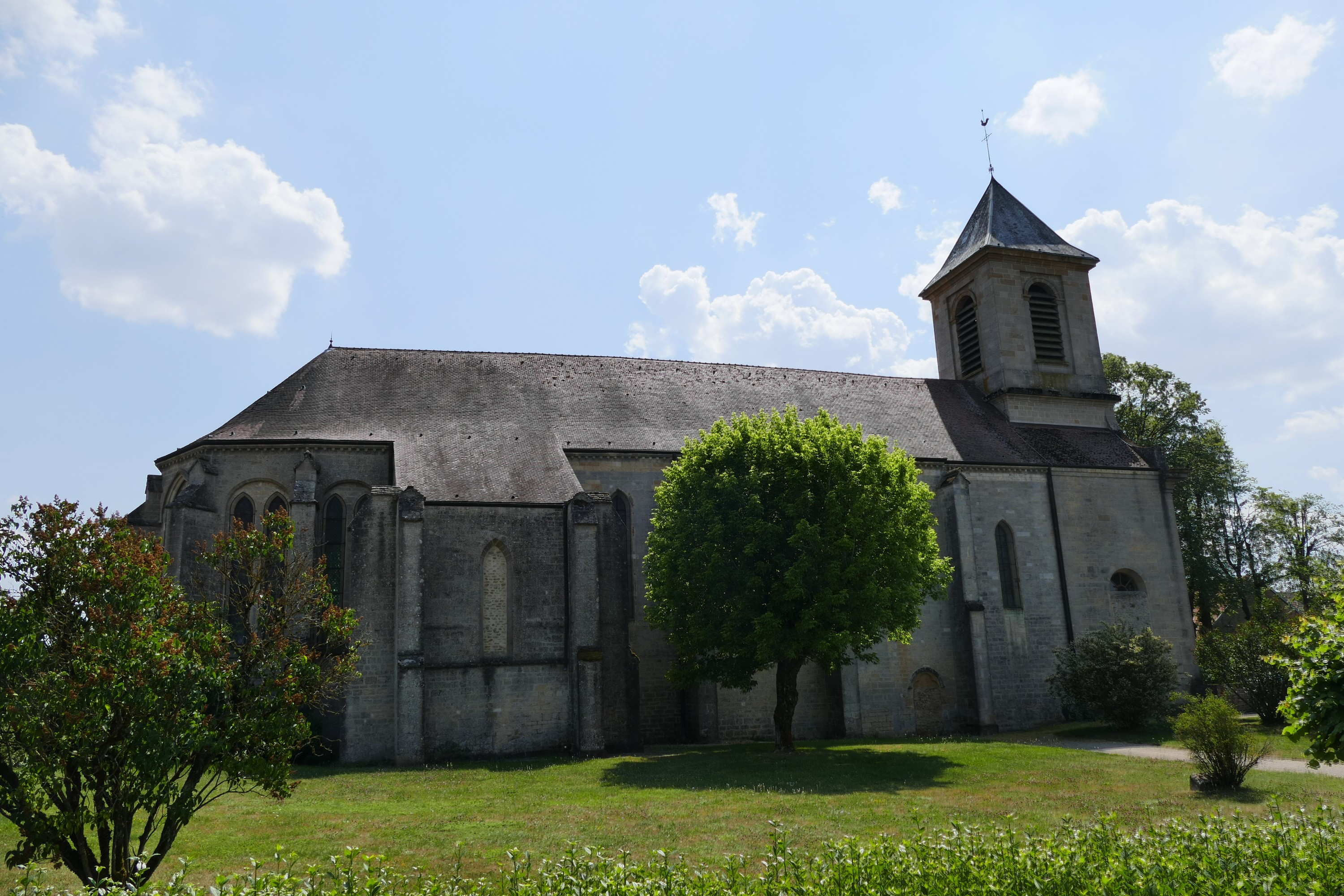 des Trois-Jumeaux's church in Saints-Geosmes (Haute-Marne, Champagne-Ardenne, France).